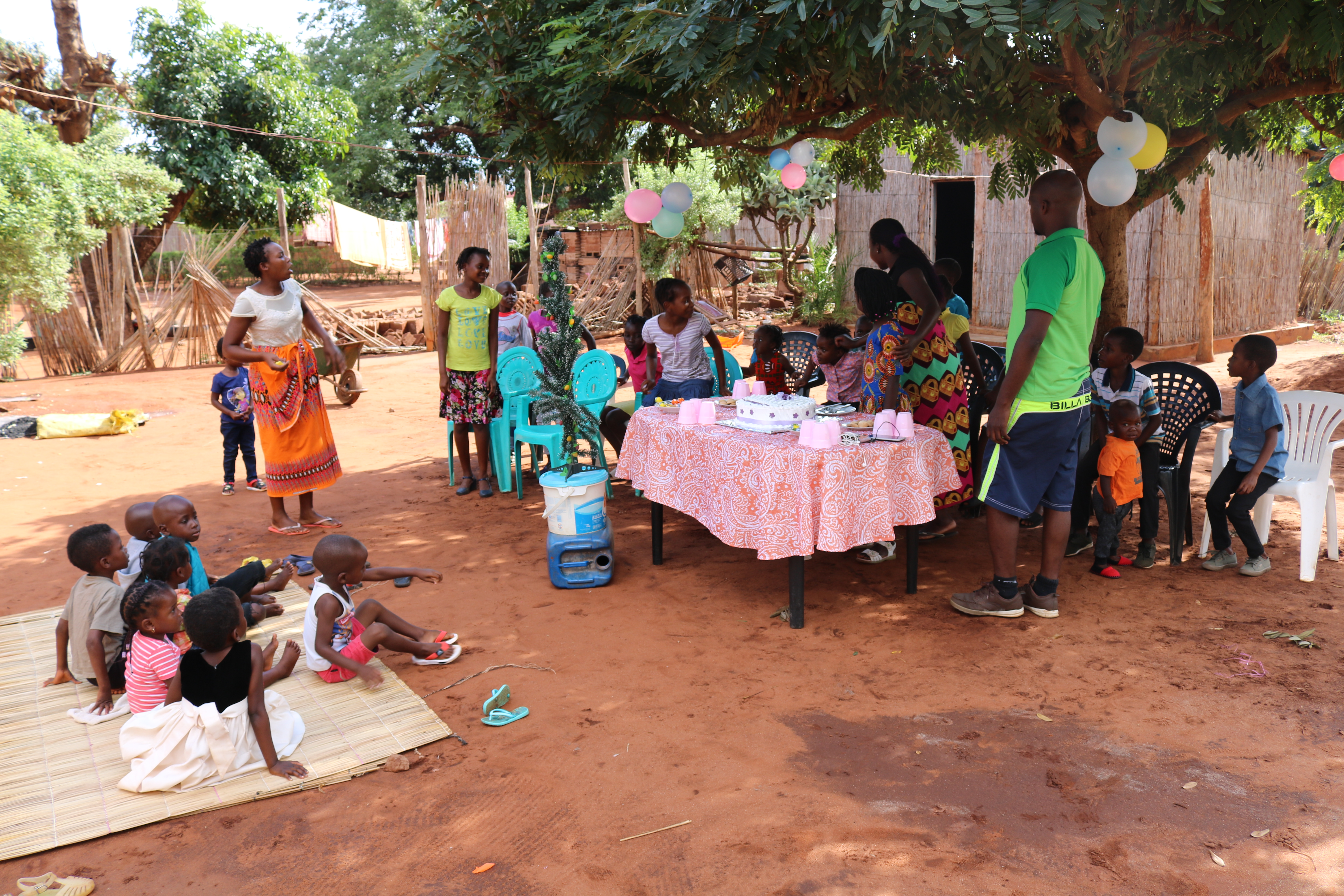 This is an image with the theme "Play" from: Mozambique